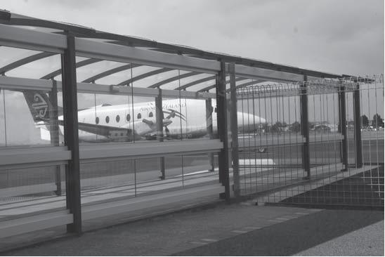 Onerahi Airport tunnel